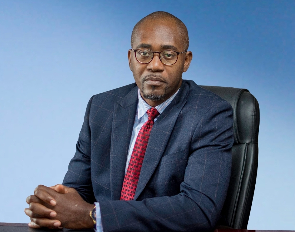 Marricke Kofi Gane is 2019 independent Ghanaian presidential candidate